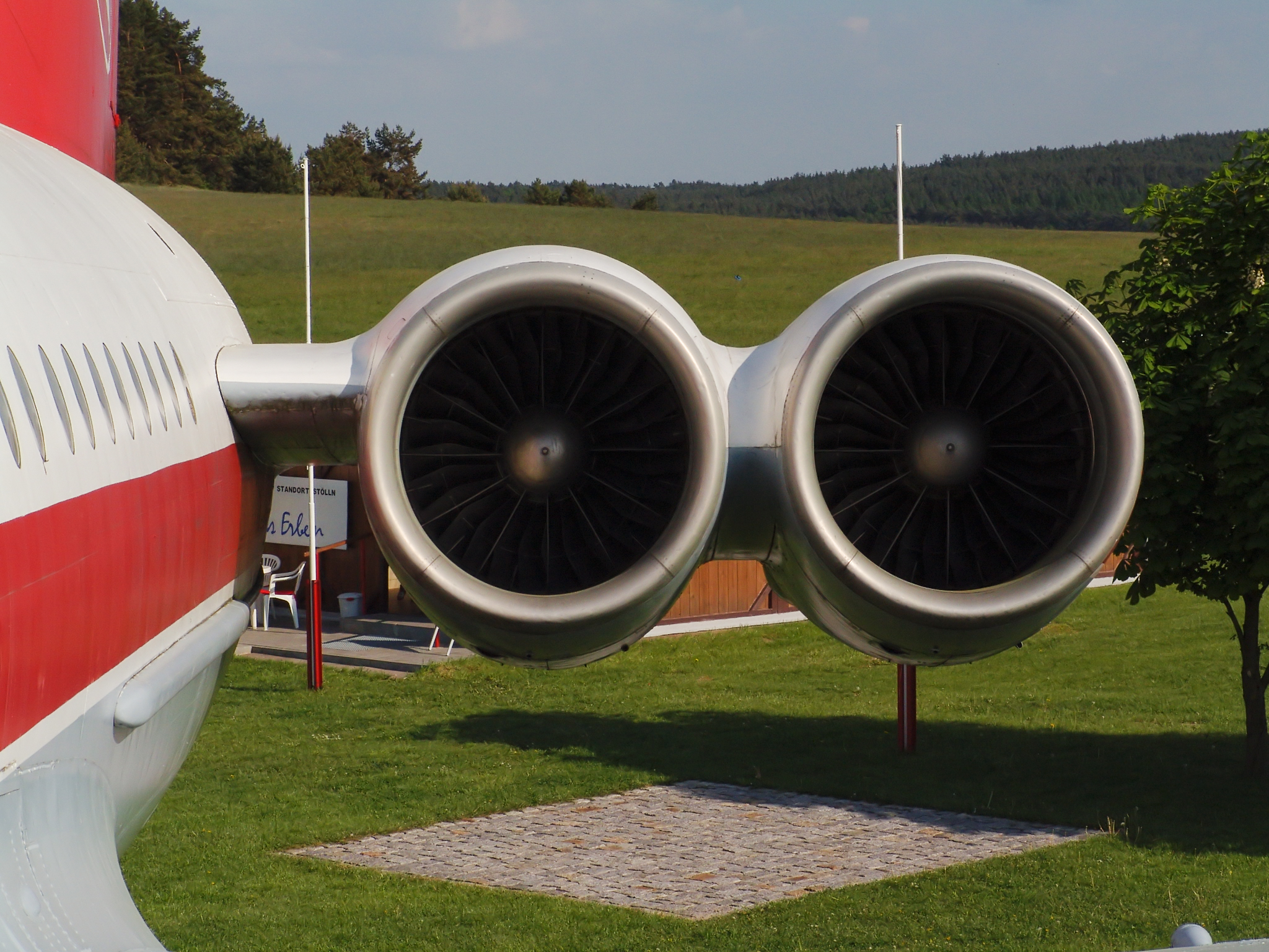 The two left engines of the Ilyushin Il-62 DDR-SEG "Lady Agnes", formerly on duty at Interflug, now exposed in Stölln near the city of Rhinow, Brandenburg, Germany.